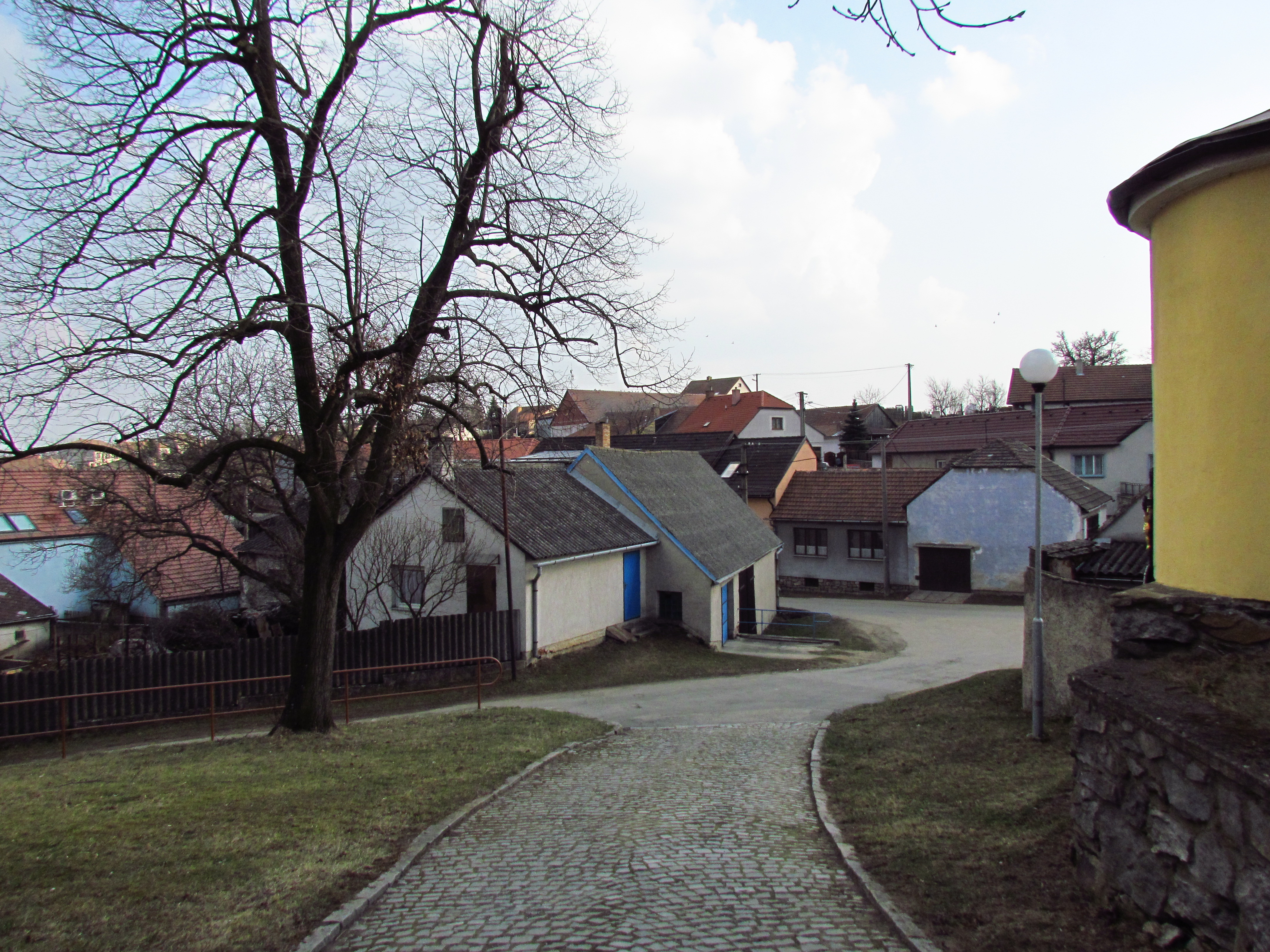 Center of Chlístov, Třebíč District.